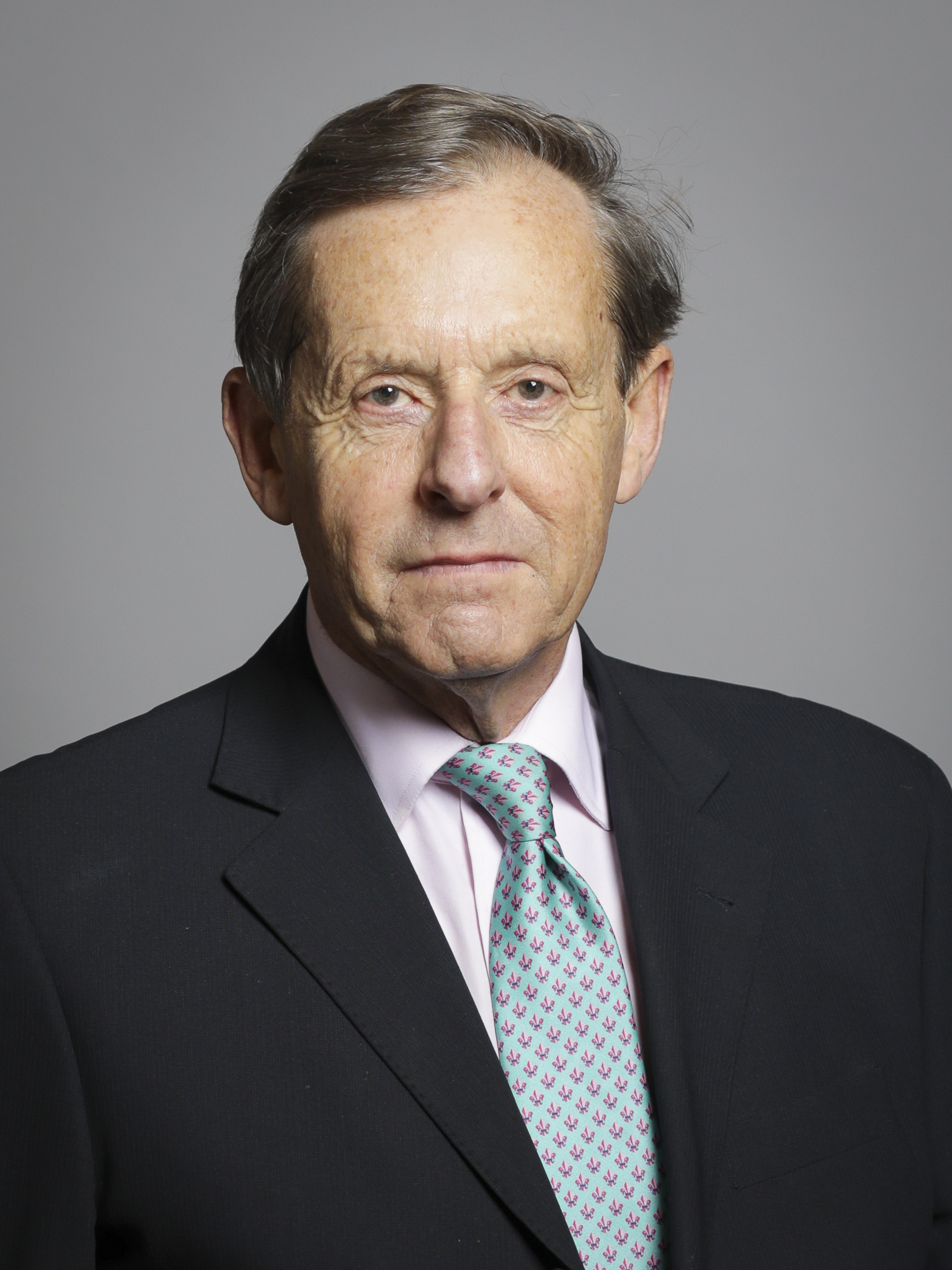 Official portrait of Lord Risby 3×4 portrait of Lord Risby